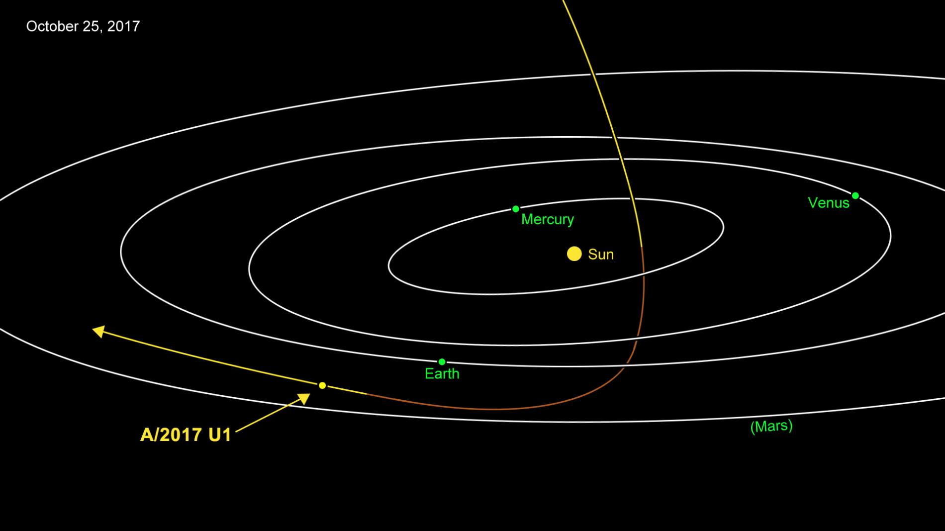 en:1I/ʻOumuamua orbit